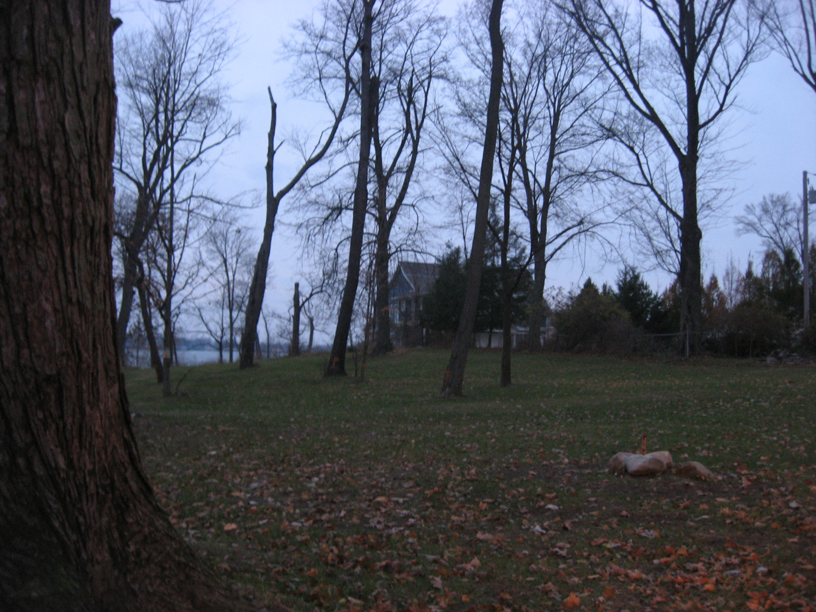 Overview of the site of Woodbank, which was formerly located at 2738 East Shore Lane southeast of Culver in Union Township, Marshall County, Indiana, United States. Built in 1894, it was listed on the National Register of Historic Places in 1982 and delisted in 2014.